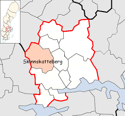 Skinnskatteberg Municipality in Västmanland County, Sweden, after Heby Municipality was transferred to Uppsala County.